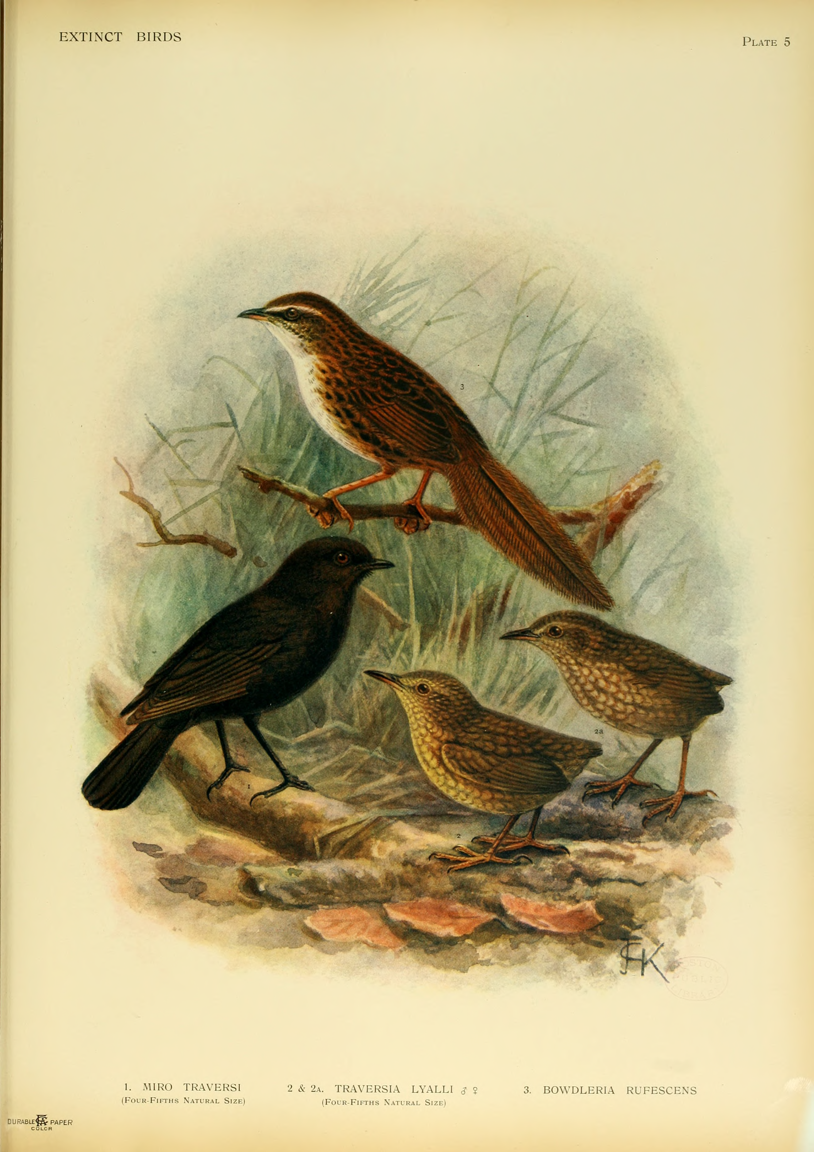 1. Miro traversi (=Petroica traversi); 2. Traversia lyalli (=Xenicus lyalli); 3. Bowdleria rufescens